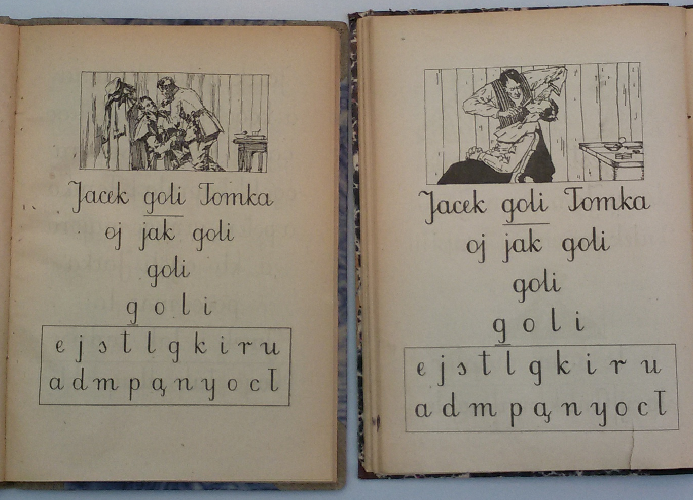 Corresponding pages of two variants of "Elementarz" by Marian Falski: for youth and adults (1922, right) and for soldiers (1921, left)